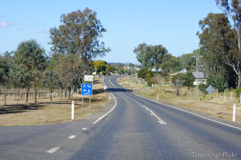 Queensland trip 2011